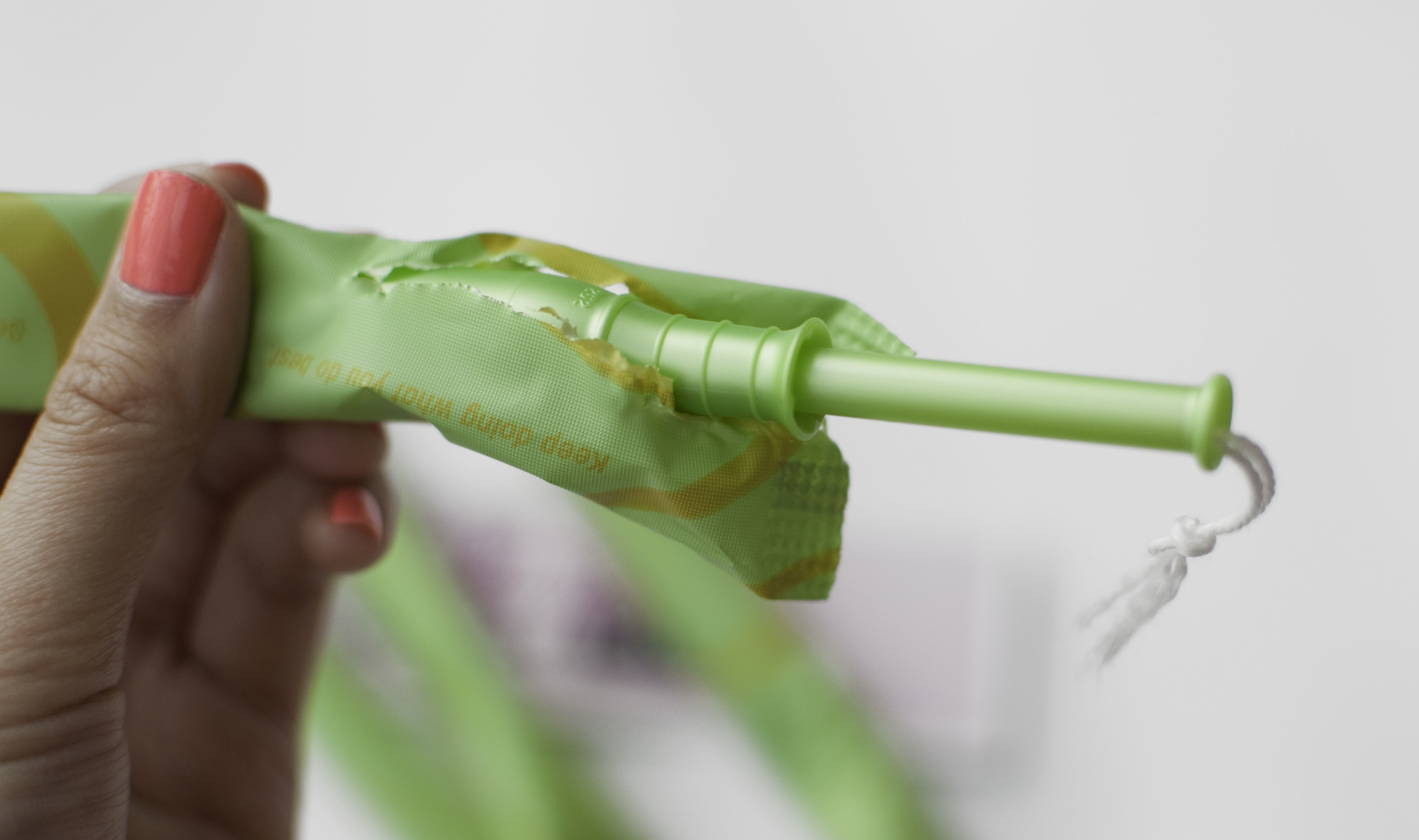 A Playtex tampon being taken out of its wrapping